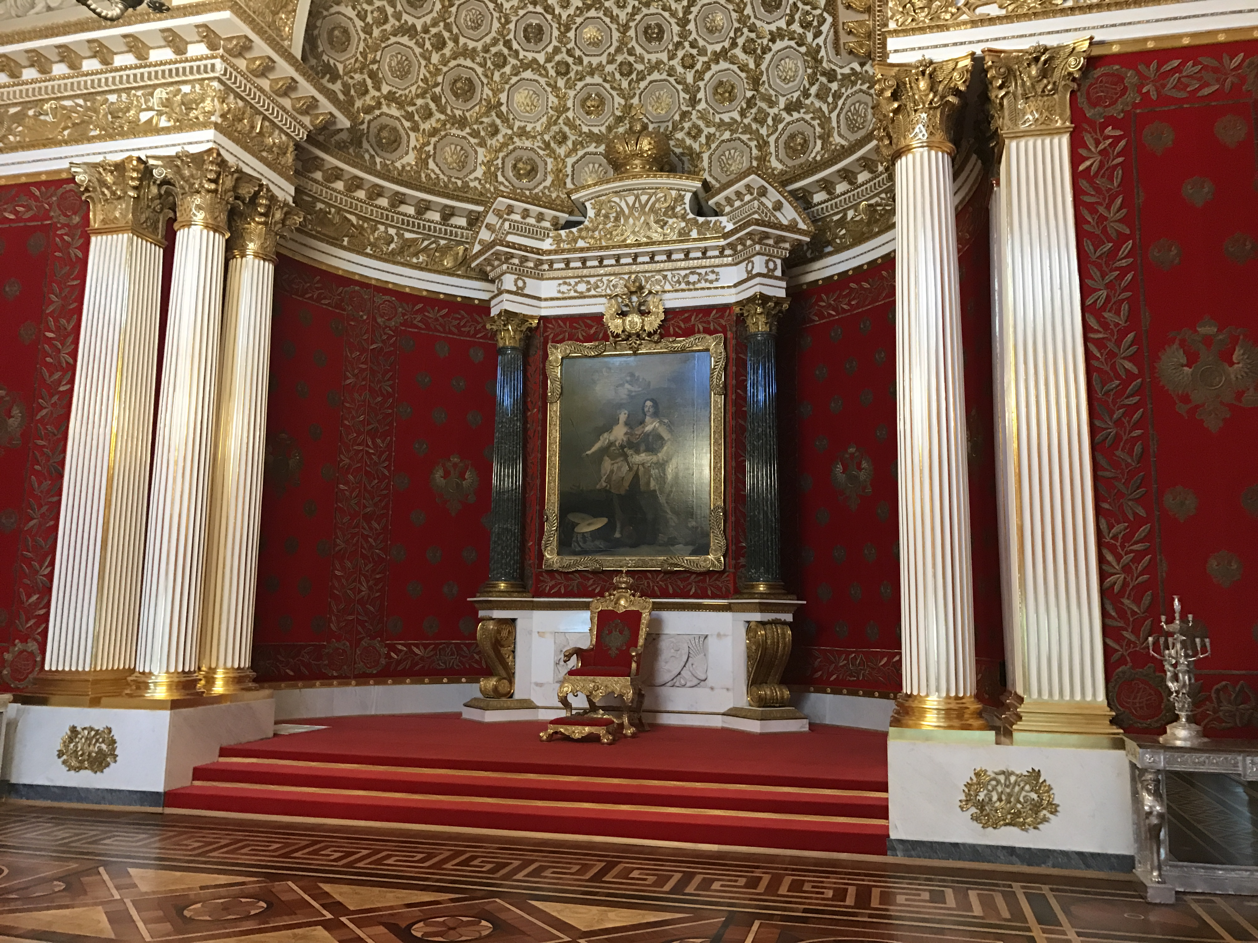 The Small Throne Room of the Winter Palace, also known as Peter the Great Memorial Hall.